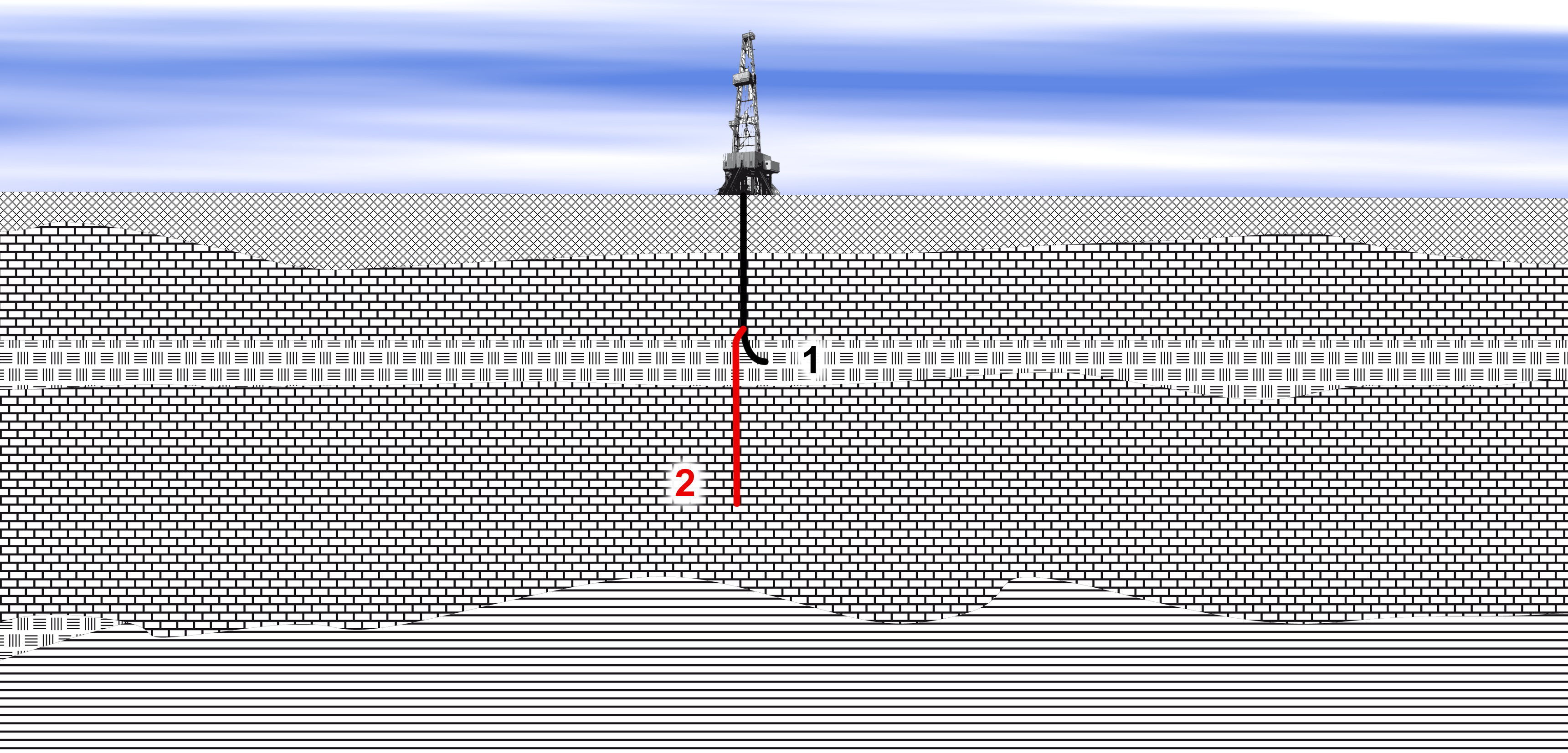 "Straighten" of curved well - diagram